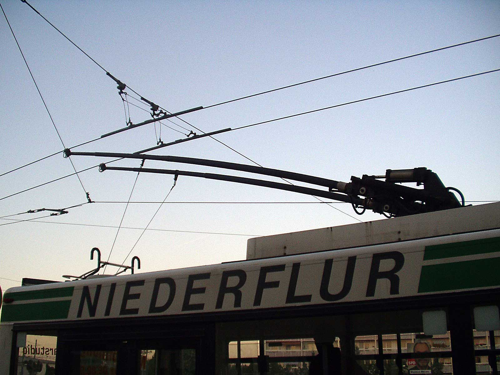 Pantograph of an ÖAF Gräf & Stift NGE 152 M17 trolleybus